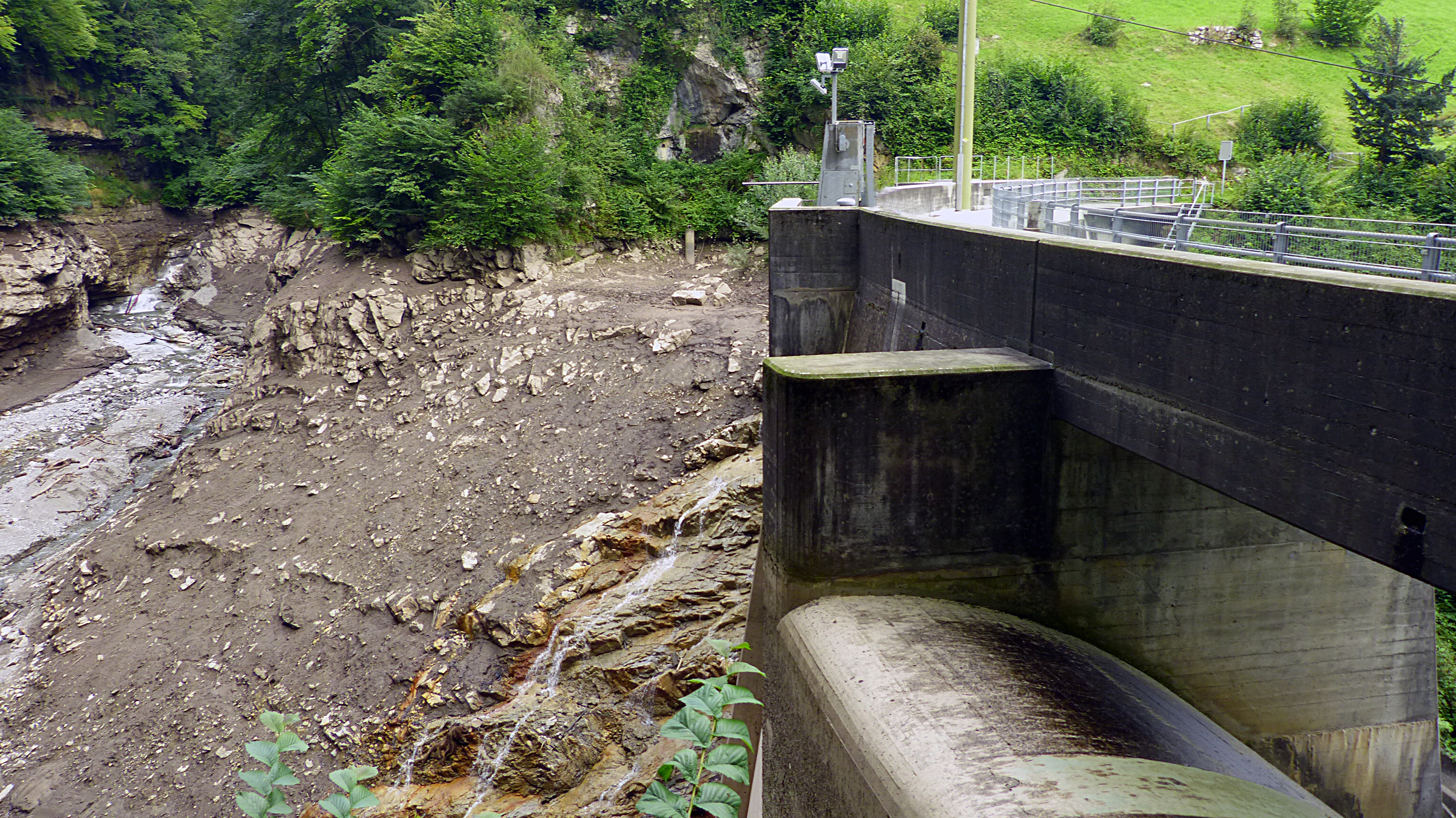 hydroelectric dam of the powerplant Muslen near Amden, Canton St. Gallen, Switzerland